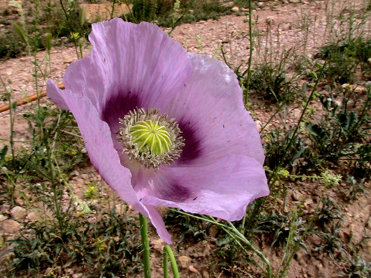 Papaver somniferum. In Camarasa (Noguera- Catalunya). To 800 m. altitude